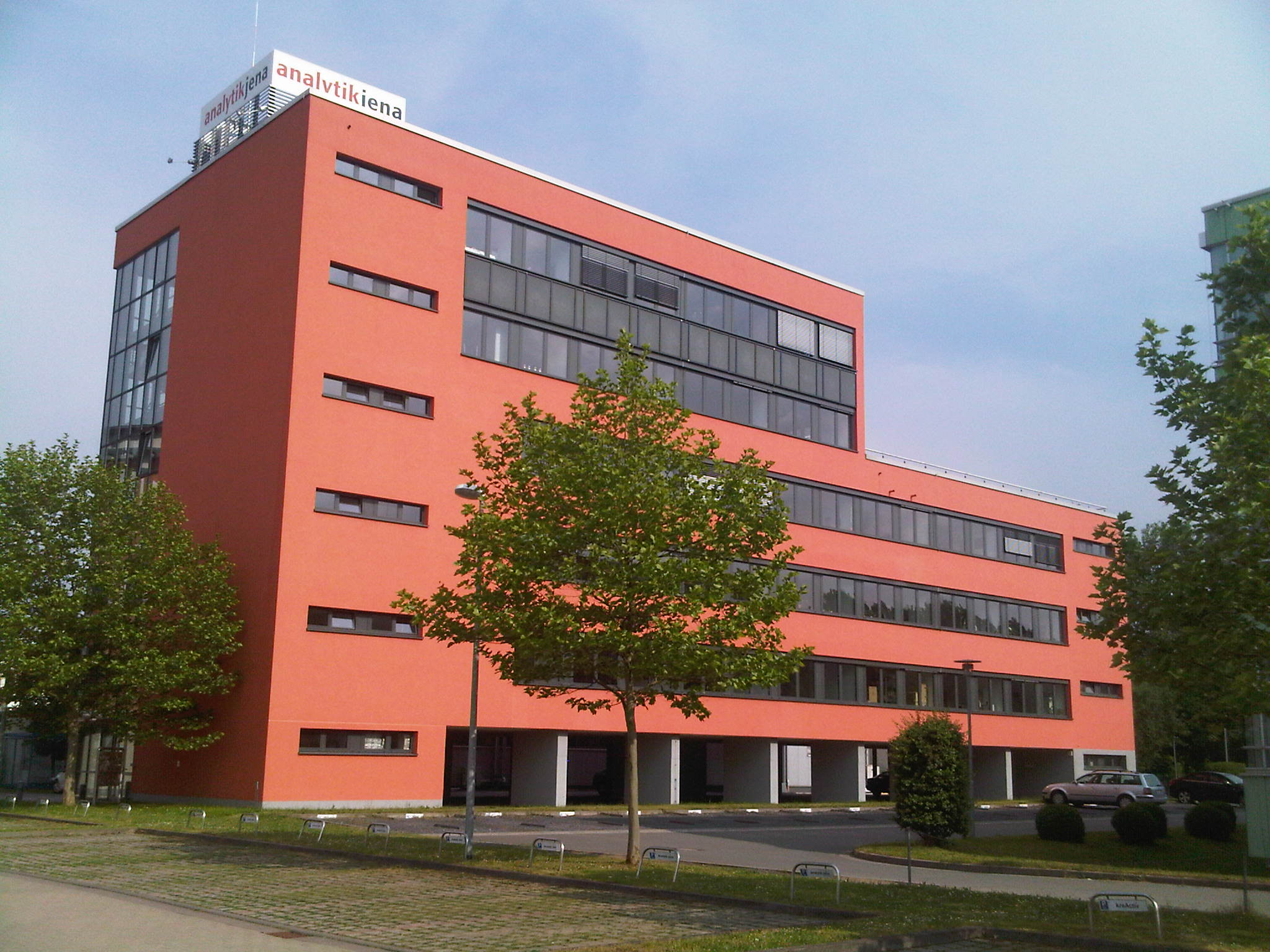 Analytik Jena building in Jena Göschwitz